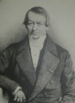 Théodore Deville, lid van het Belgisch Nationaal Congres